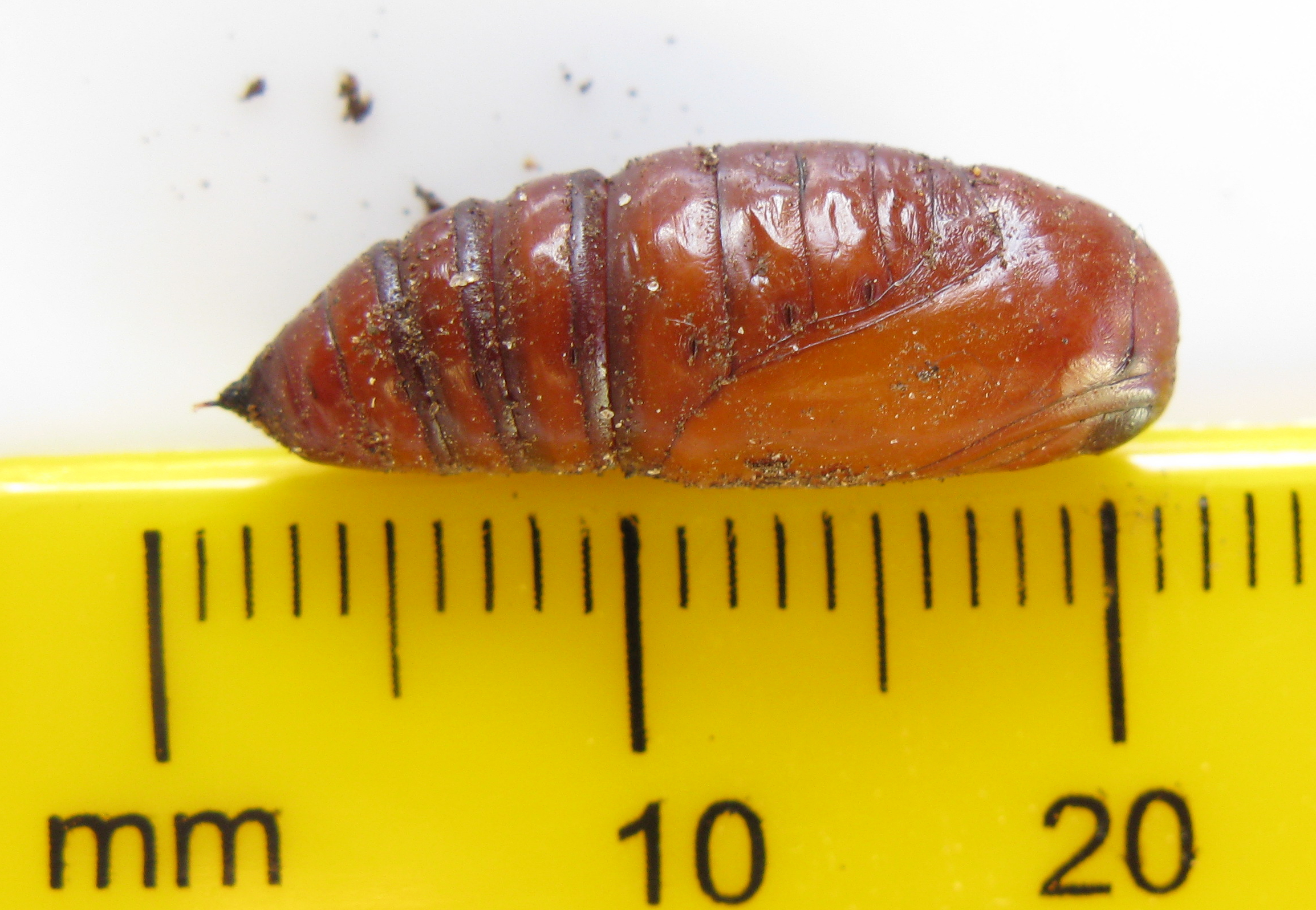 Neuranethes spodopterodes Noctuidae. Agapanthus borer. Pupa female. Lateral aspect